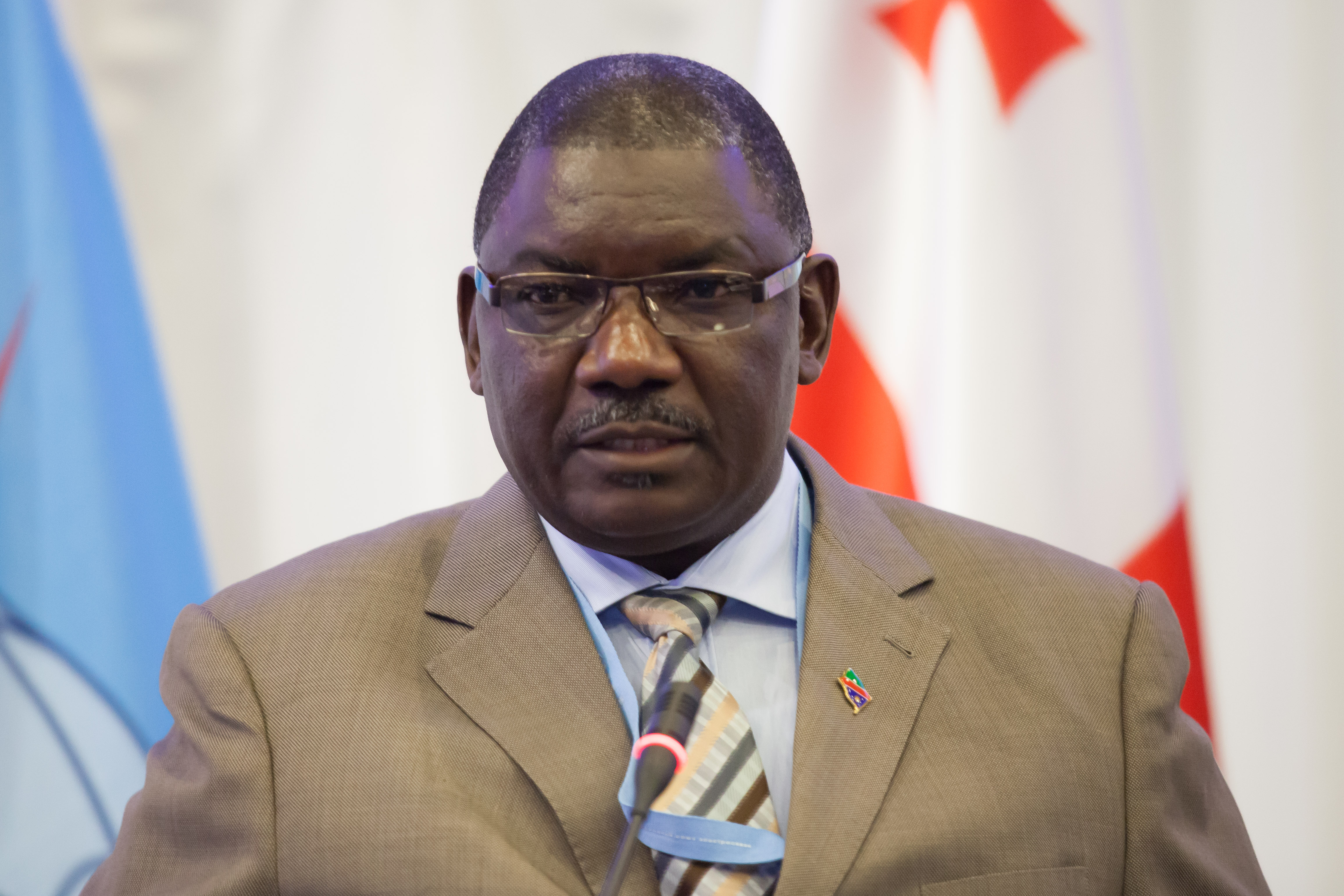 Hon. Stanley Simataa, Deputy Minister of Information and Communication Technology, Namibia speaking at the Ministerial Roundtable: the Post 2015 Development Agenda and Future Priorities for ICT for Development (ICT4D) Policy. ©ITU/ R.Farrell